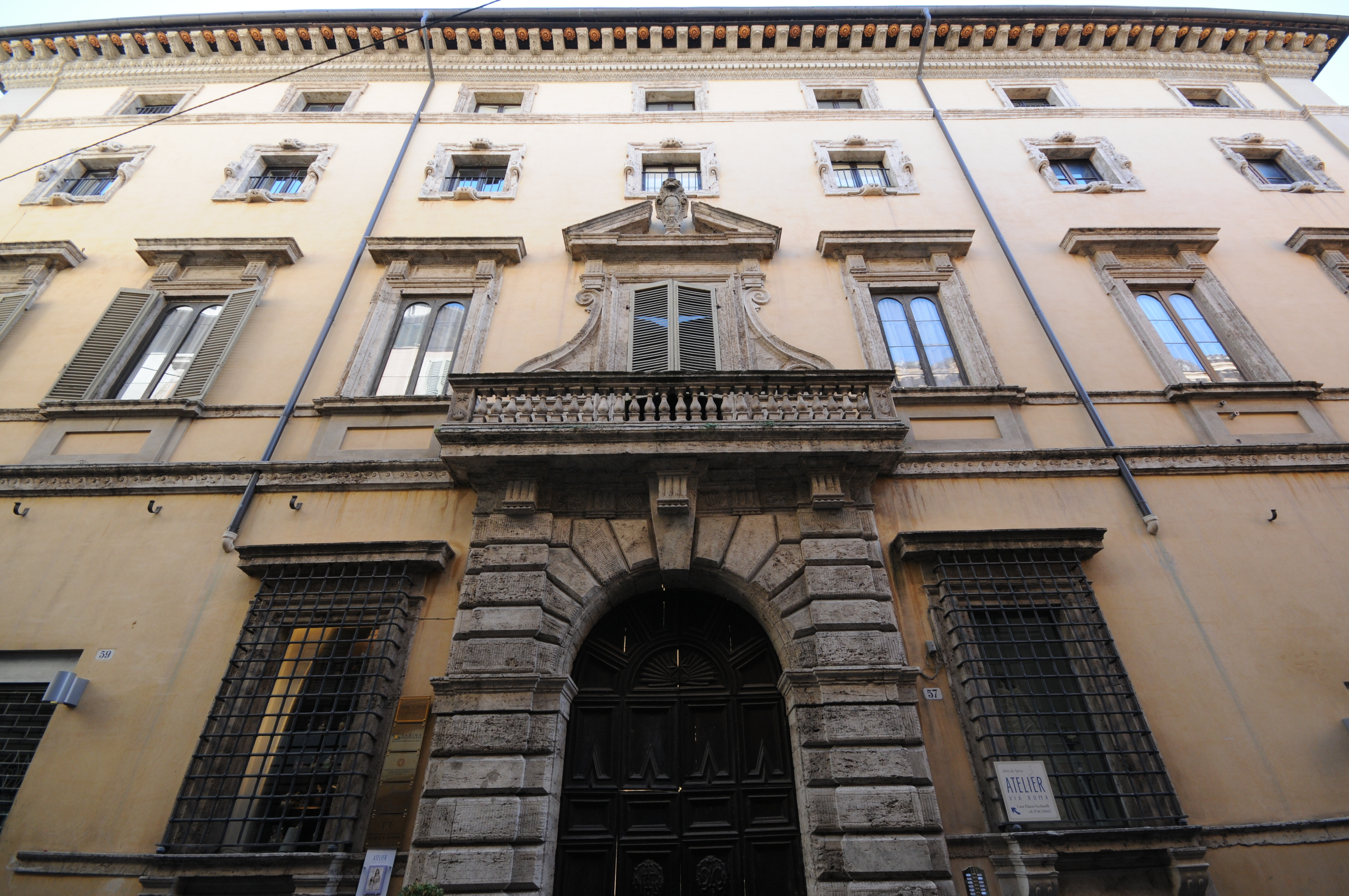 Vecchiarelli Palace - Rieti, Lazio, Italy